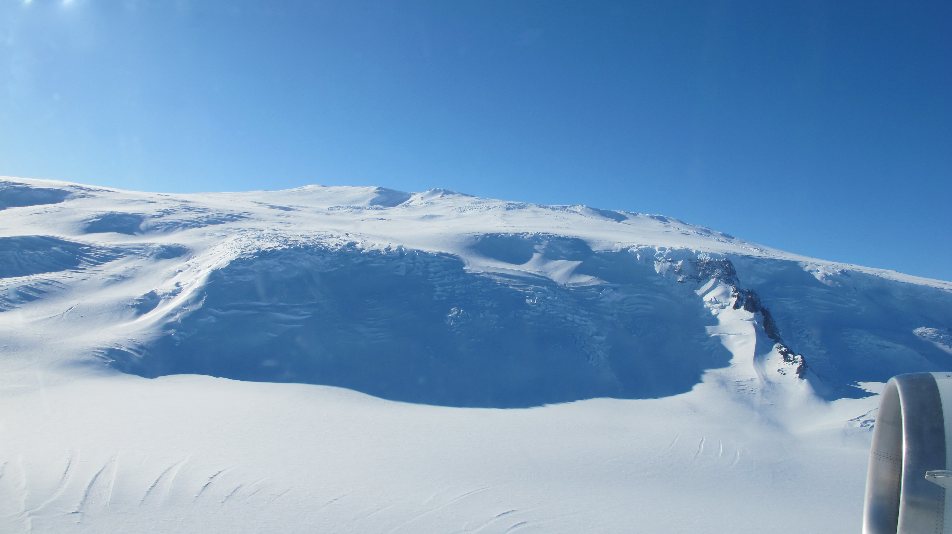 Mount Takahe, a volcano in Marie Byrd Land Antarctica as seen from the IceBridge DC-8 on Oct. 16, 2012. Credit: NASA / Jim Yungel NASA's Operation IceBridge is an airborne science mission to study Earth's polar ice. For more information about IceBridge, visit